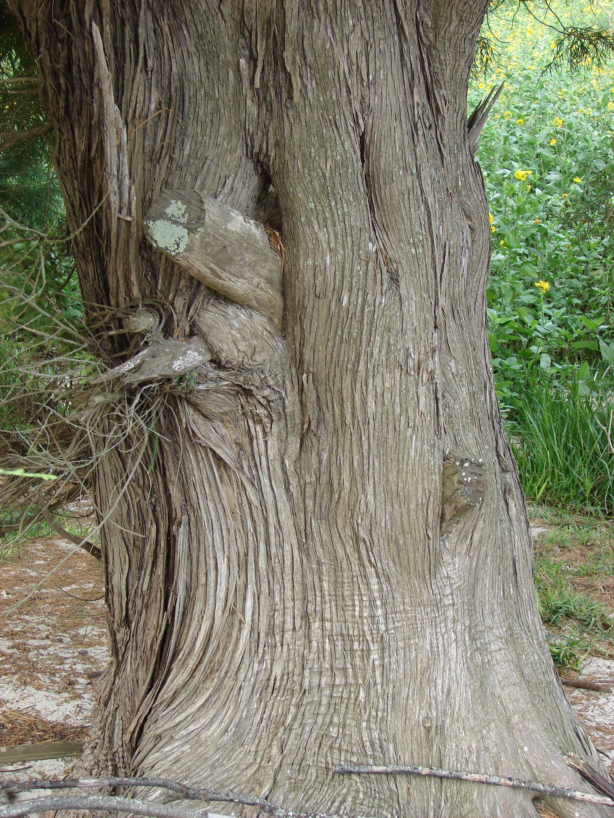 Juniperus bermudiana (trunk). Location: Midway Atoll, Cable Company buildings Sand Island